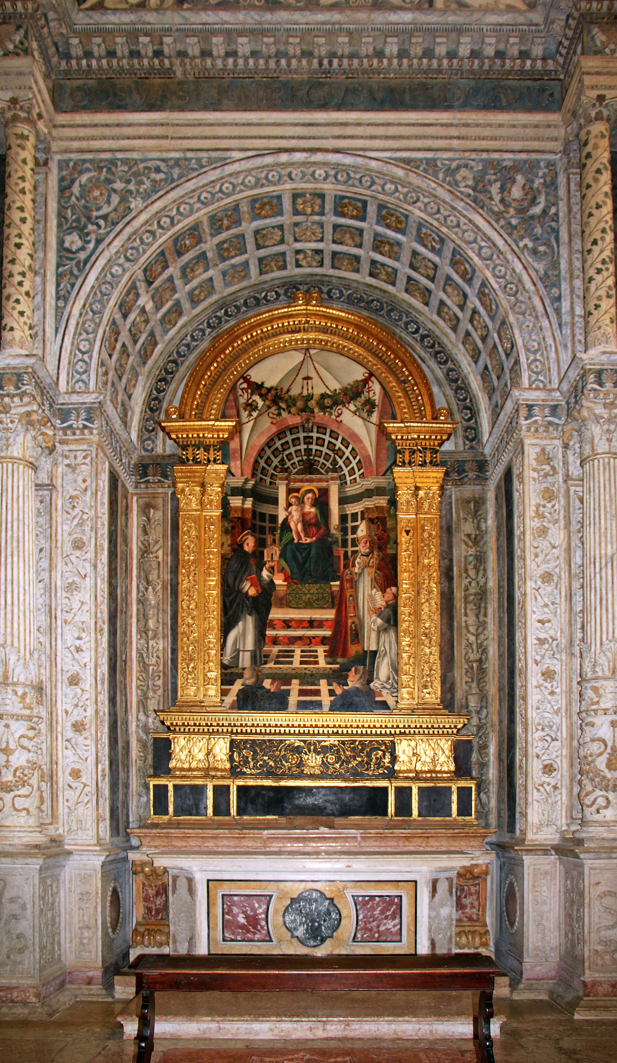 Centrego altar, Chiesa di Sant'Anastasia, Verona, Italy. The altar dates from 1488 - 1502. The painting "Our Lady enthroned between St. Thomas and St. Augustine" is by Girolamo dal Libri (1477 - 1555).